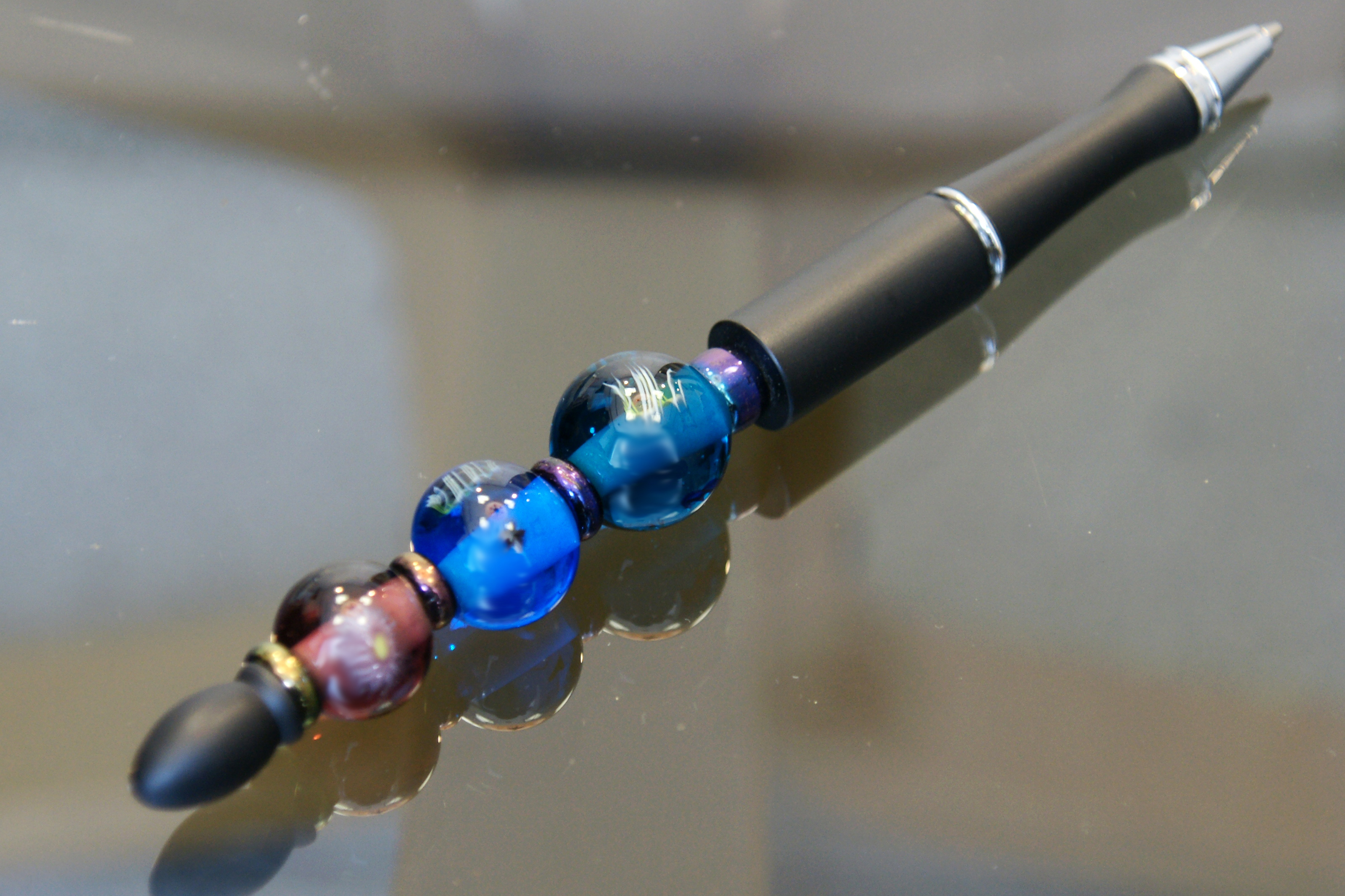 Lampwork glass ballpoint pen at Kobe Tonbodama Museum in Kobe, Hyogo prefecture, Japan